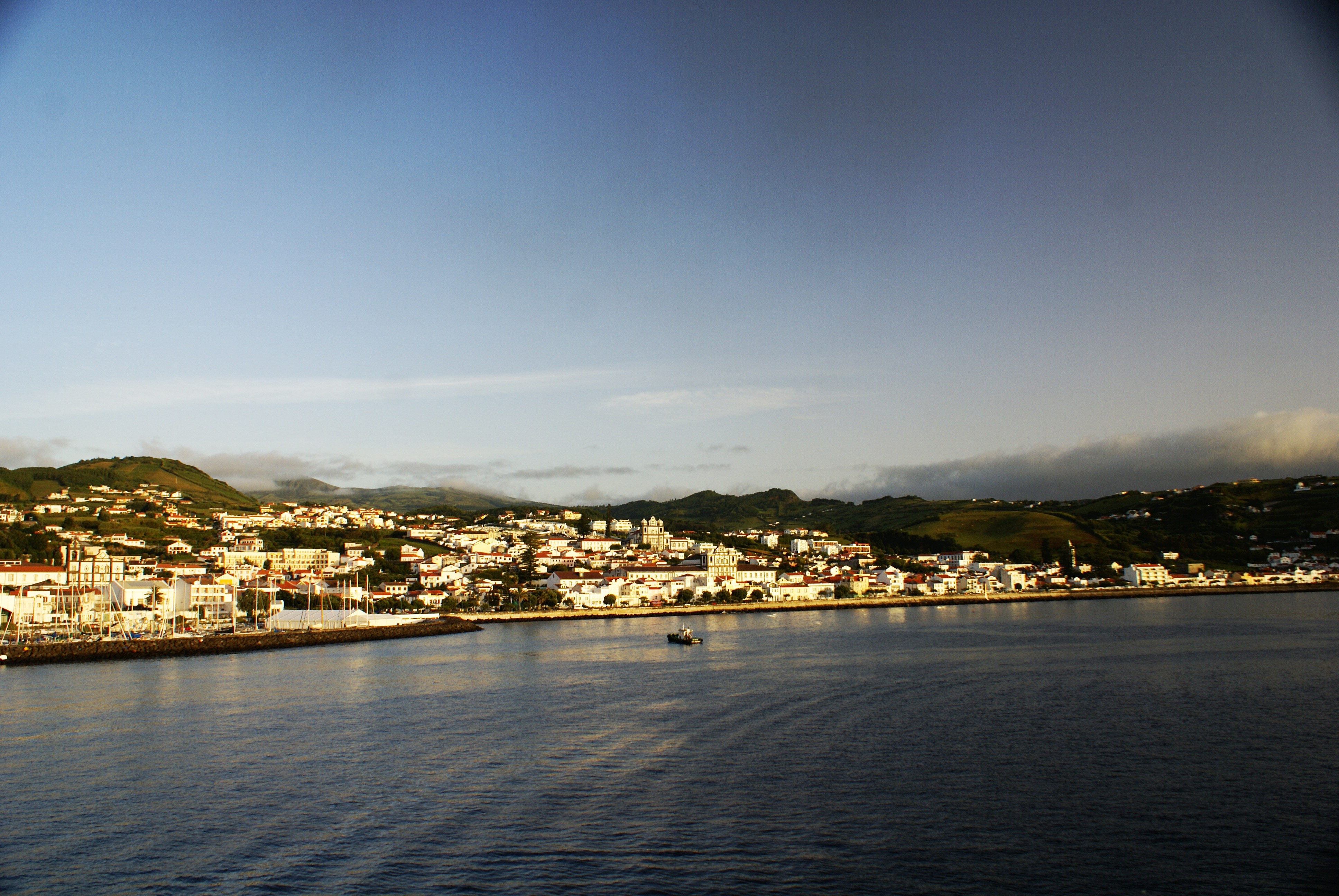 Cidade da Horta, vista parcial, ilha do Faial, Açores, Portugal